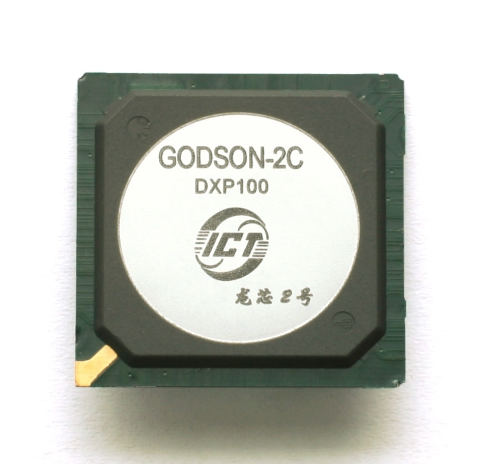 CPU Loongson Godson-2C